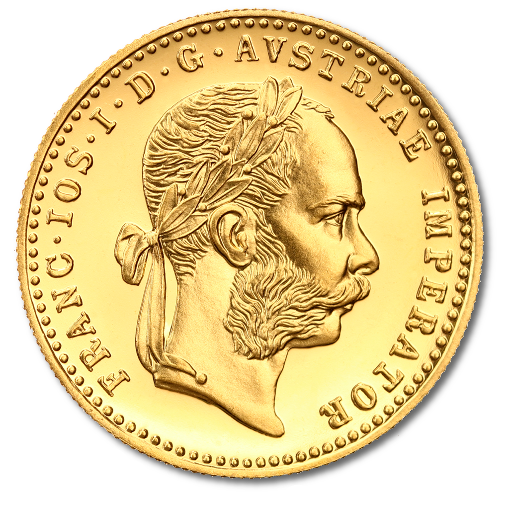 Averse of the 1 Ducat new edition gold coin.